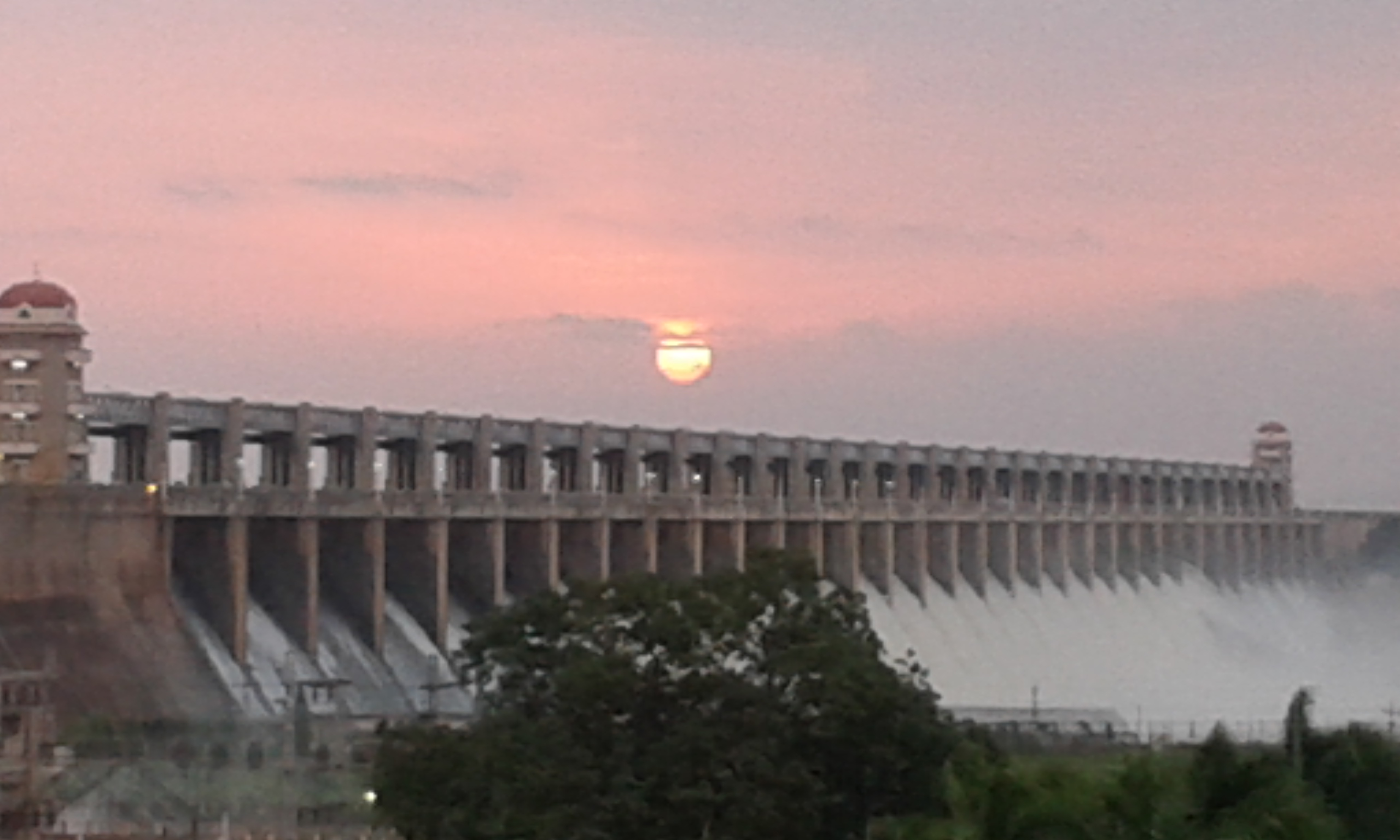 60 years for T.B DAMಕನ್ನಡ: ತು೦ಗಭಧ್ರ ಆಣ್ಣೀ ಕಟುಟ್,ಹೊಸಪೇಟೀ